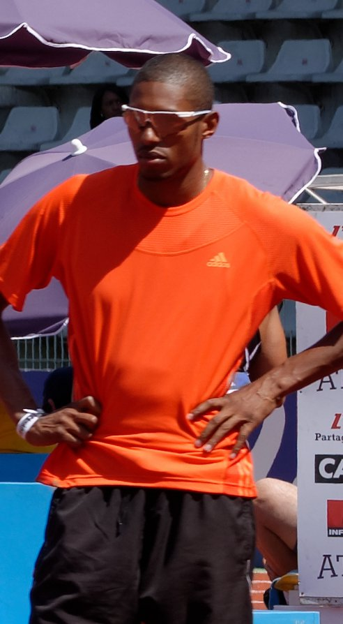 Final of the men's high jump during the French Athletics Championships 2013 at Stade Charléty in Paris, 14 July 2013.